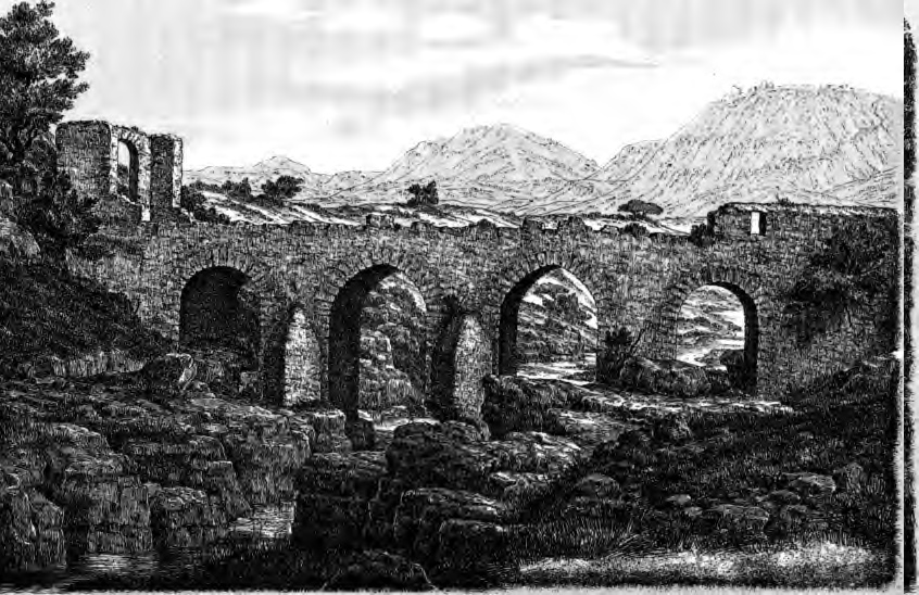 Etching of the old "Portuguese" Bridge over the Magech River in northern Ethiopia, near Gondar